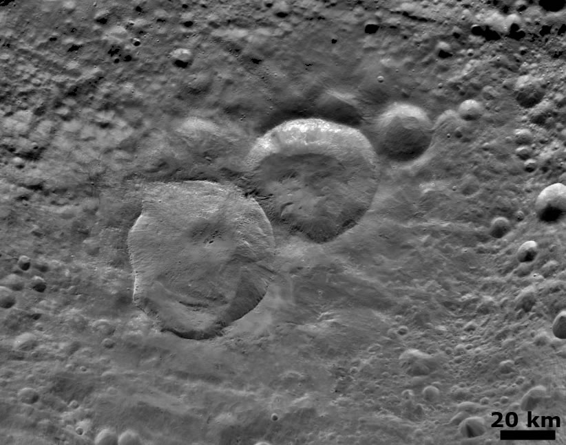 An detailed image, taken by Dawn on August 6, 2011, of three craters on Vesta, which are informally nicknamed “Snowman” by the camera’s team members. It has a resolution of about 260 meters per pixel.